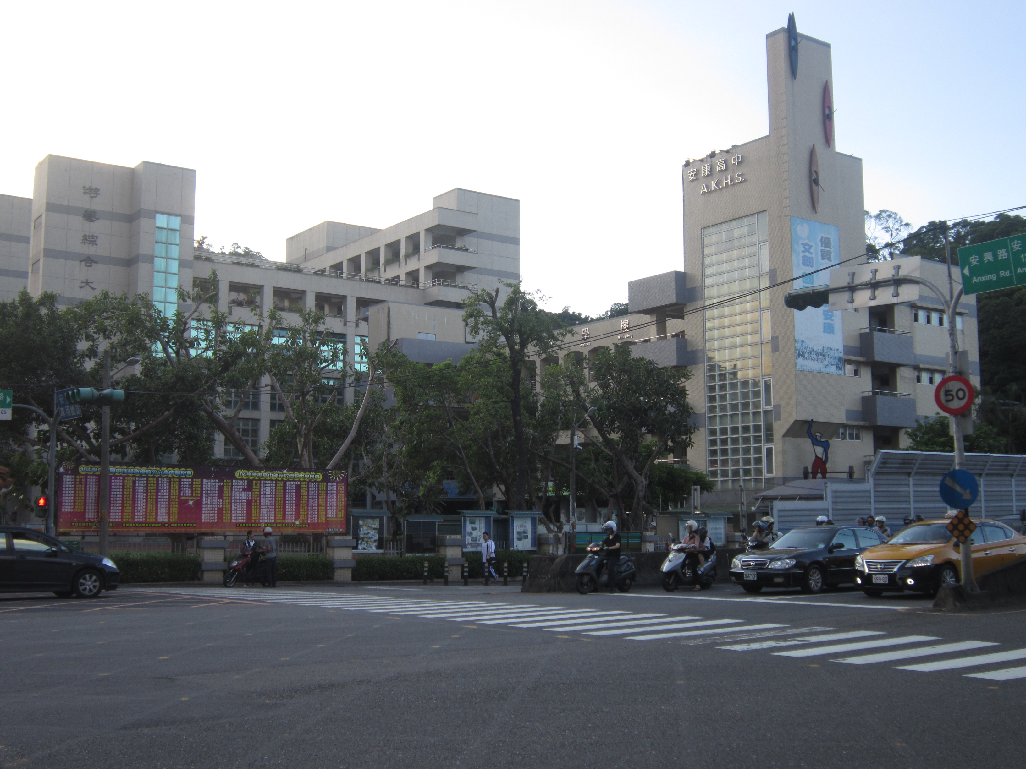 An_Kang_High_School